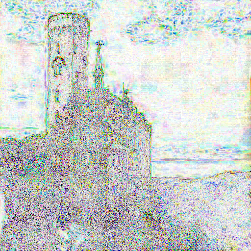 The picture shows the difference pixel-by-pixel between an image and its JPEG2000 compressed version: white=no-difference; black=big-difference The original image is Image:Lichtenstein img processing test.png, that I have renamed castle.png on my hard-disk to make it simpler. The I have converted it so JPEG2000 using the "convert" utility by ImageMagik, with the following command: convert -quality 50 castle.png castle.jp2 Then I had to reconvert the JPEG2000 version to PNG to be able to read it: convert castle.jp2 castle_2000.png The I have used the following Matlab code: %read original image original=imread('castle.png'); %read compressed image compressed=imread('castle_2000.png'); original=im2double(original); compressed=im2double(compressed); error=abs(original-compressed); %amplify the error for each color layer error(:,:,1)=imadjust(error(:,:,1)); error(:,:,2)=imadjust(error(:,:,2)); error(:,:,3)=imadjust(error(:,:,3)); %invert the picture error=1-error; %write it to a file imwrite(error,'castle_error_2000.png')